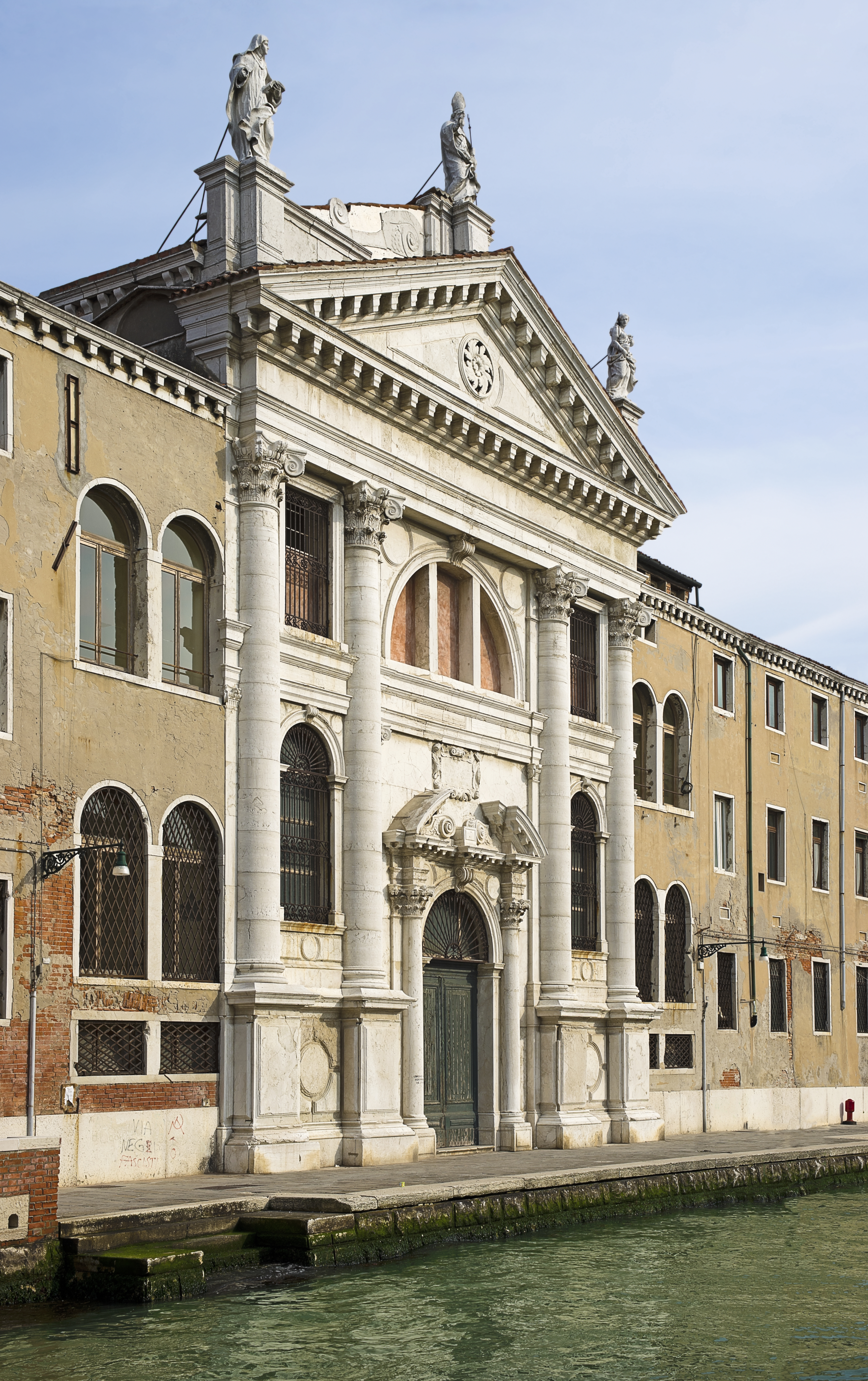 Church of San Lazzaro dei Mendicanti in Venice, facade.